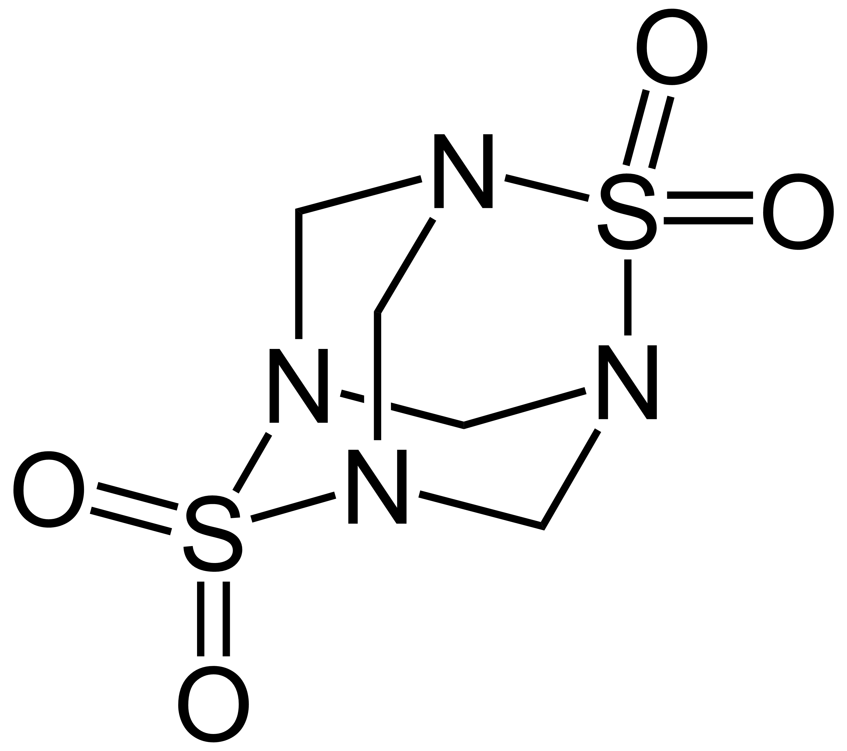 Chemical structure of Tetramethylenedisulfotetramine